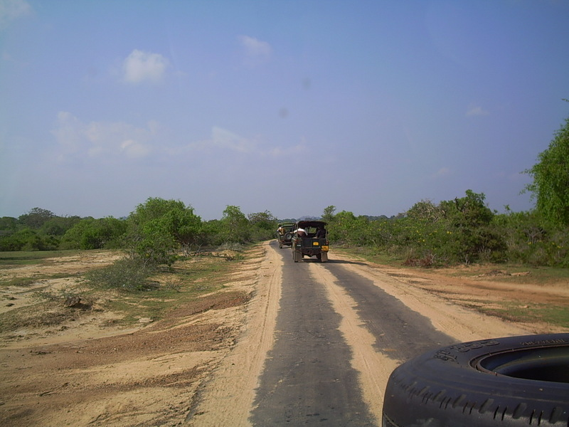 Path to the park